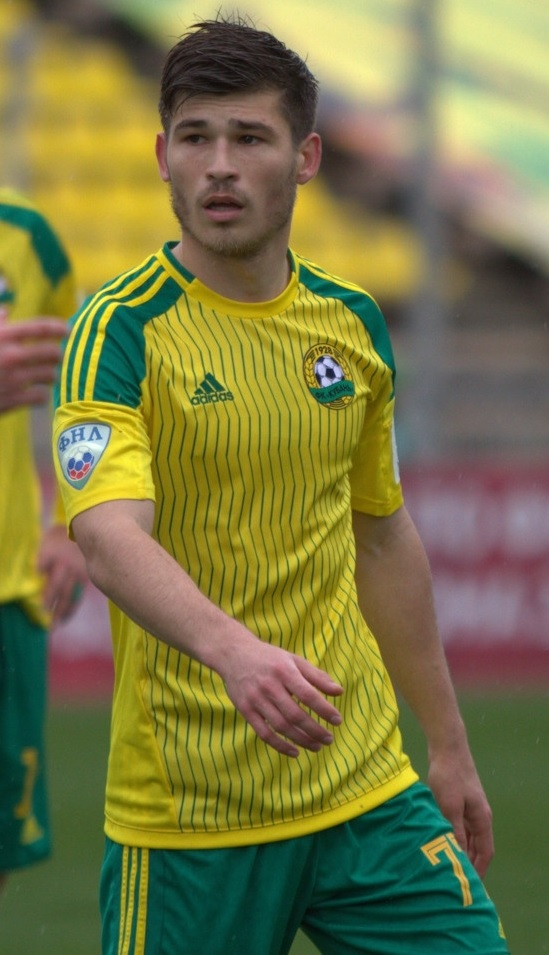 Vladimir Lobkaryov with FC Kuban Krasnodar in a game against FC Neftekhimik Nizhnekamsk.